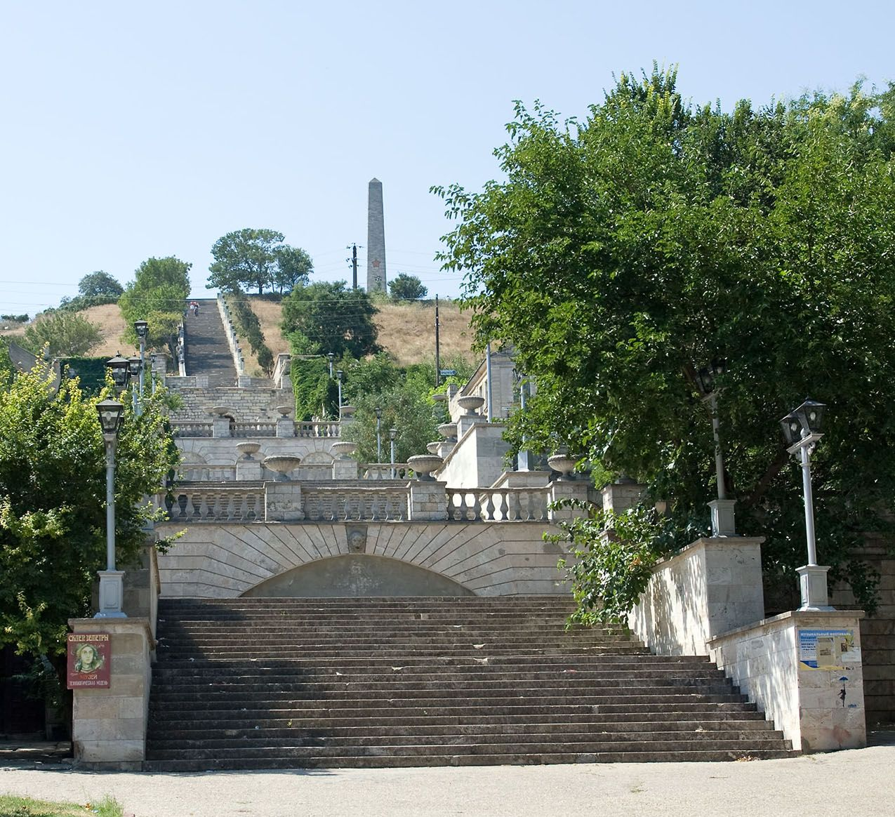 Kerch. Mithridates Staircase.